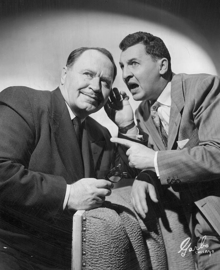 Photo of Howard Freeman (left) and Eddie Bracken in a scene from a stage version of The Seven Year Itch.